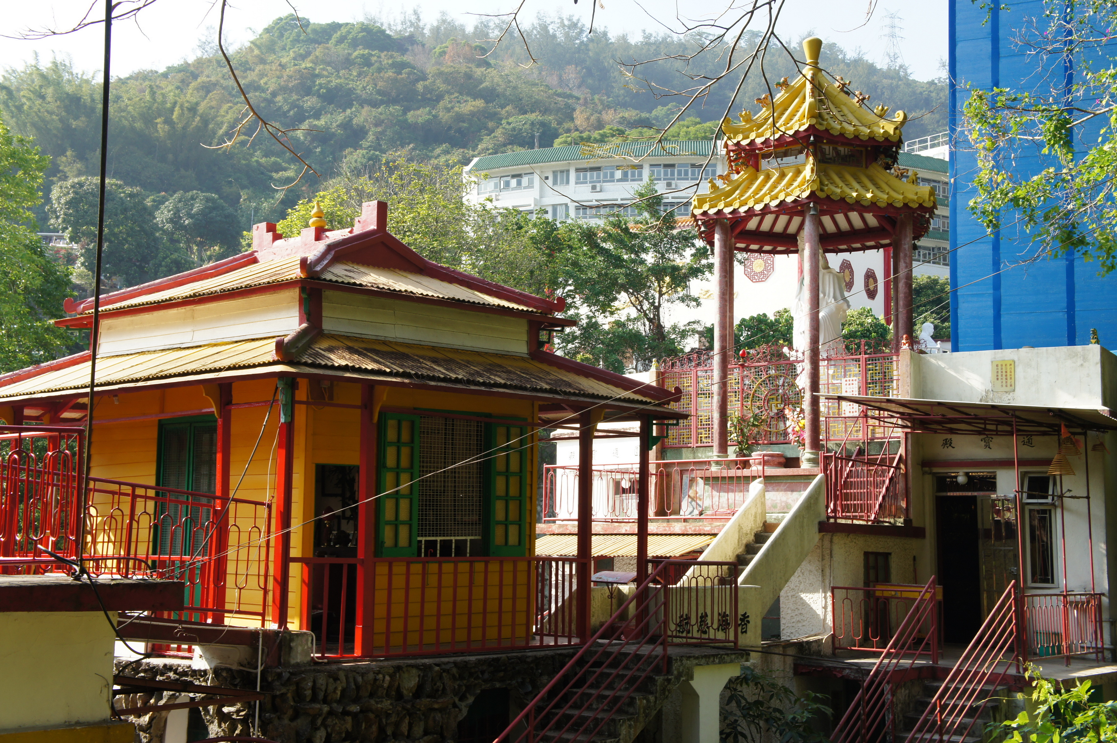 Heung Hoi Chi Hong (Ship Temple), Tsuen Wan, New Territories, Hong Kong.